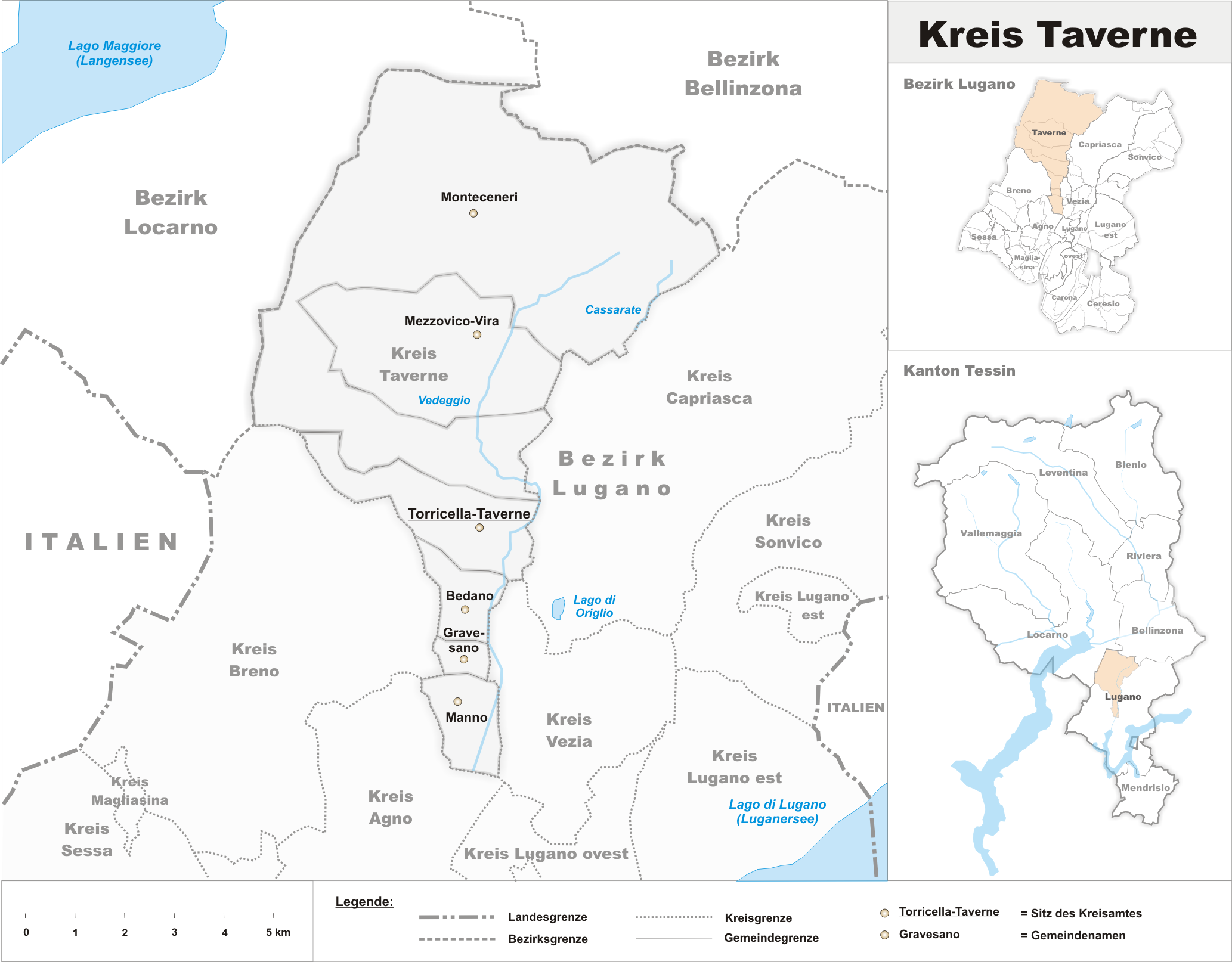 Municipalities in the circle of Taverne